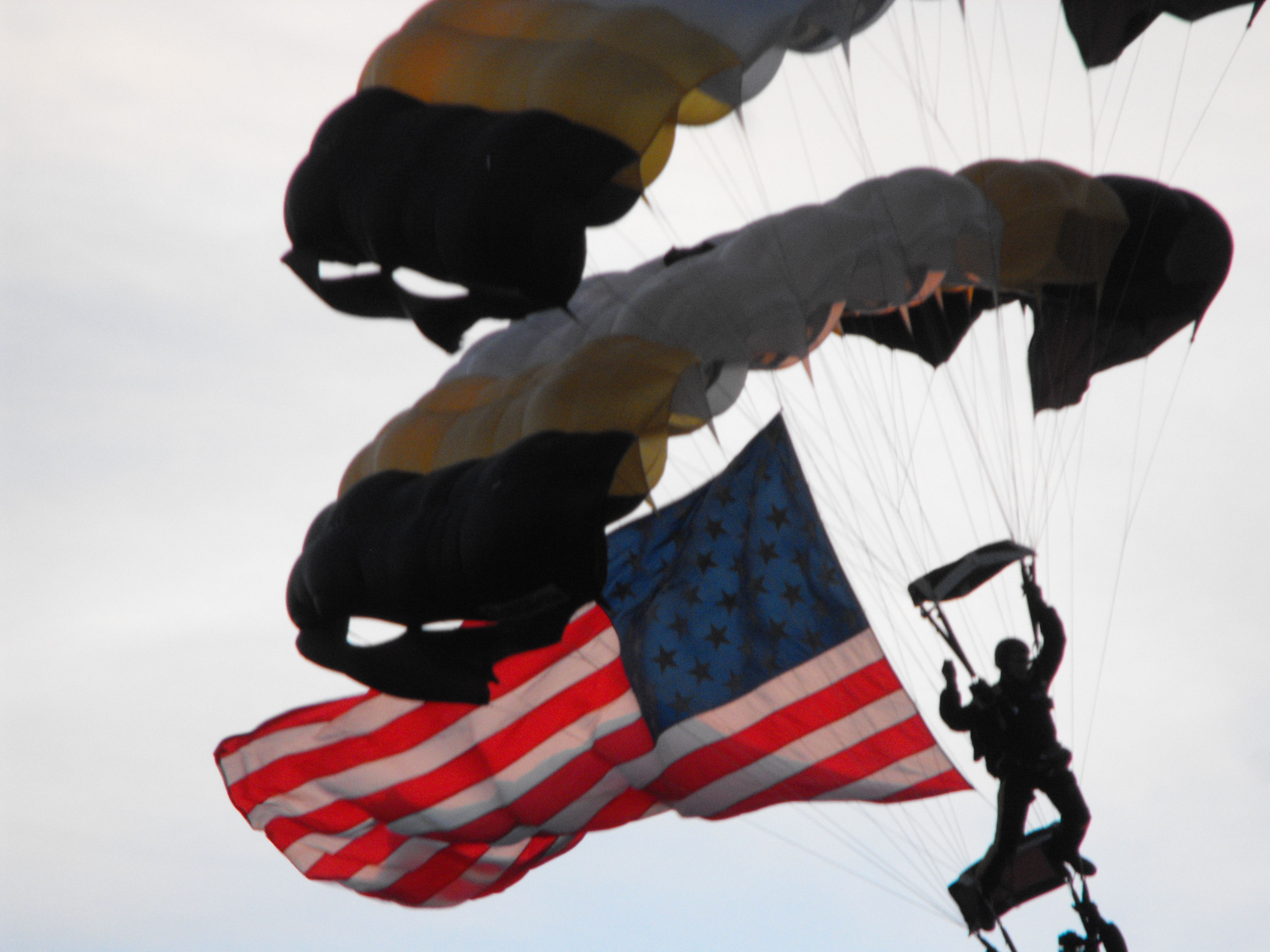 Made using Paint Pro XIIDate 29 October 2011Source Own workAuthor MDSankerOther versions released under GFDL Entirely my own work Made using Paint Pro XII